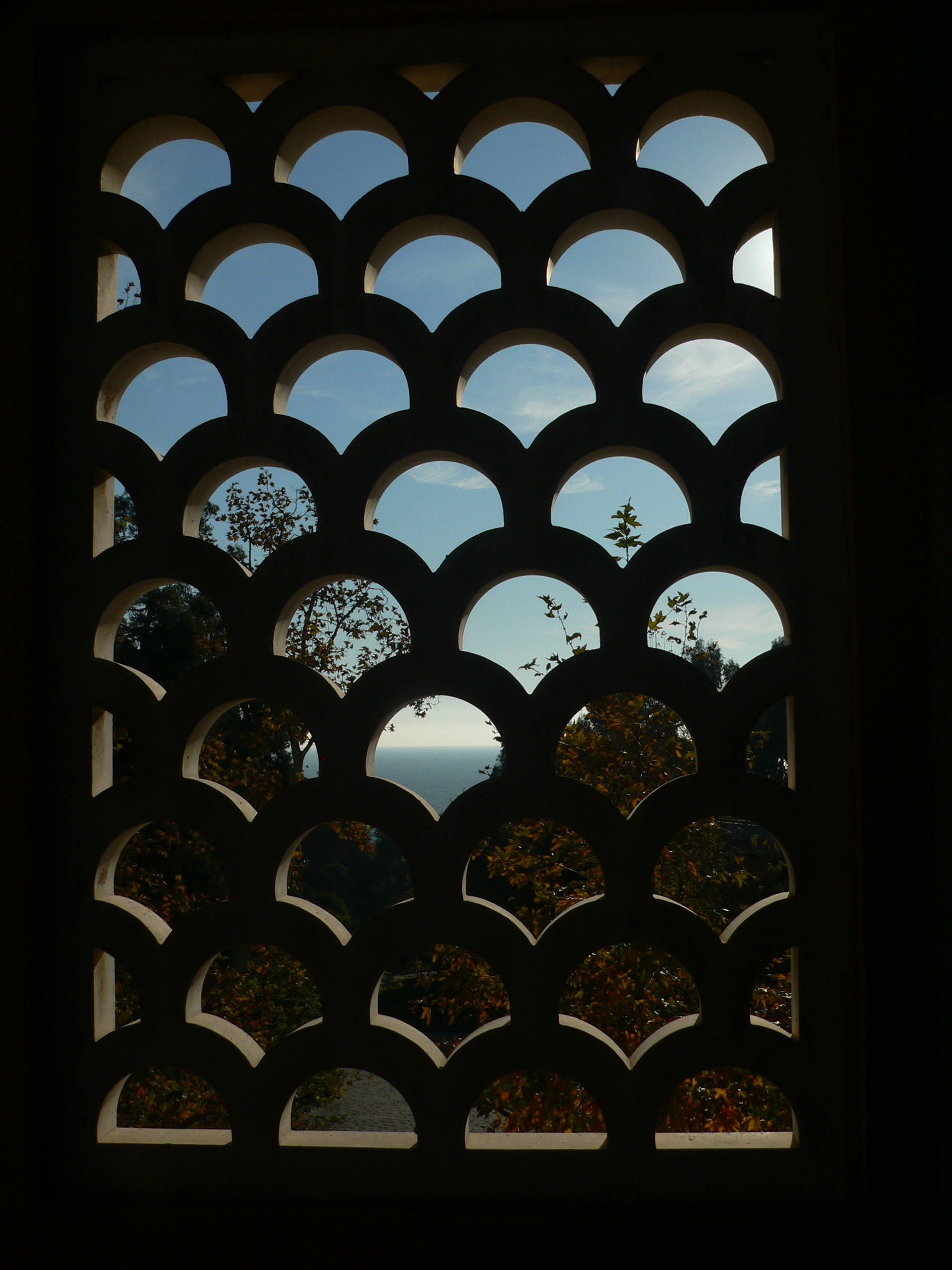 View from the Outer Peristyle toward the Pacific